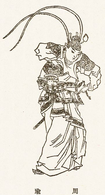 Portrait of the general Zhou Yu from a Qing Dynasty edition of The Romance of the Three Kingdoms.